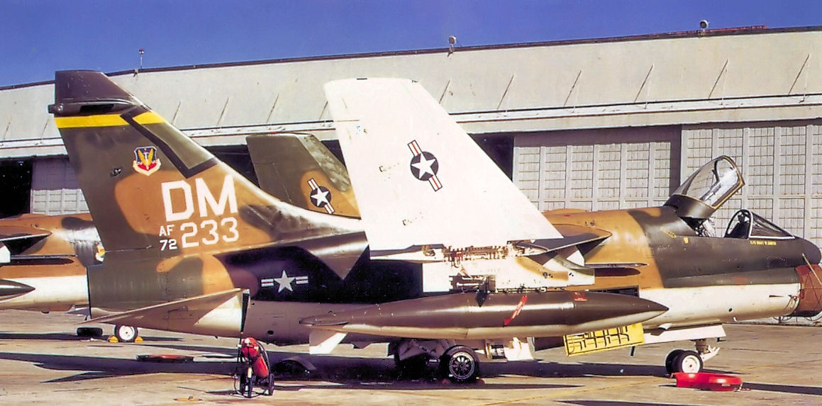 357th Tactical Fighter Squadron - Ling-Temco-Vought A-7D-13-CV Corsair II - 72-0233 DM - 1972